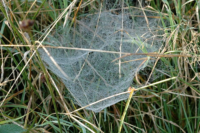 Linyphia hortensis web, from Commanster, Belgian High Ardennes .